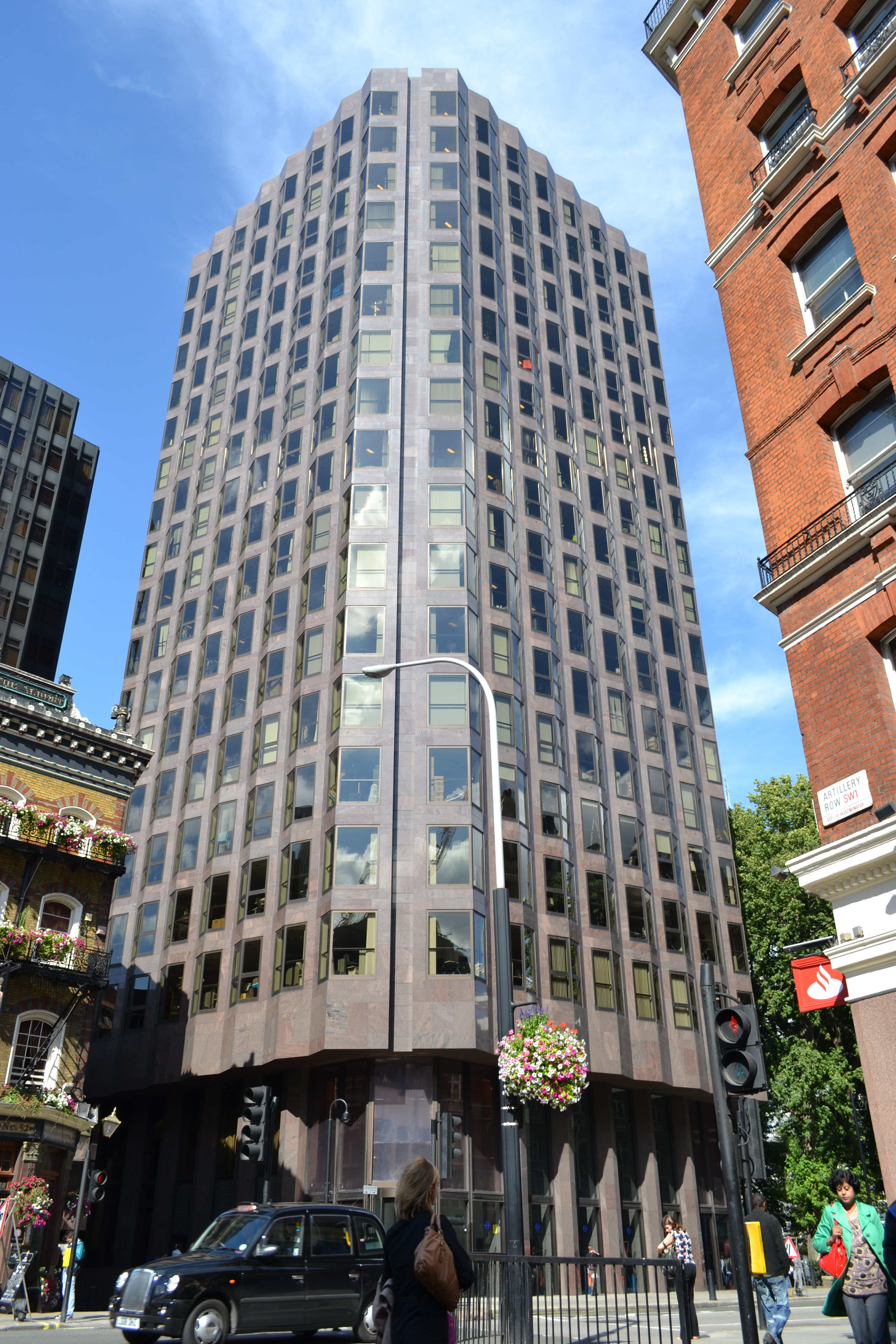 Windsor House, Transport for London head office - 42-50 Victoria Street, London SW1H 0TL, United Kingdom